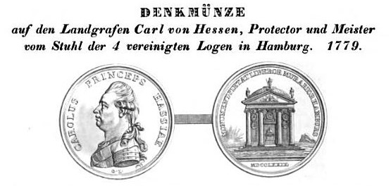 Memorial coin for Charles of Hesse-Cassel (1744-1836)